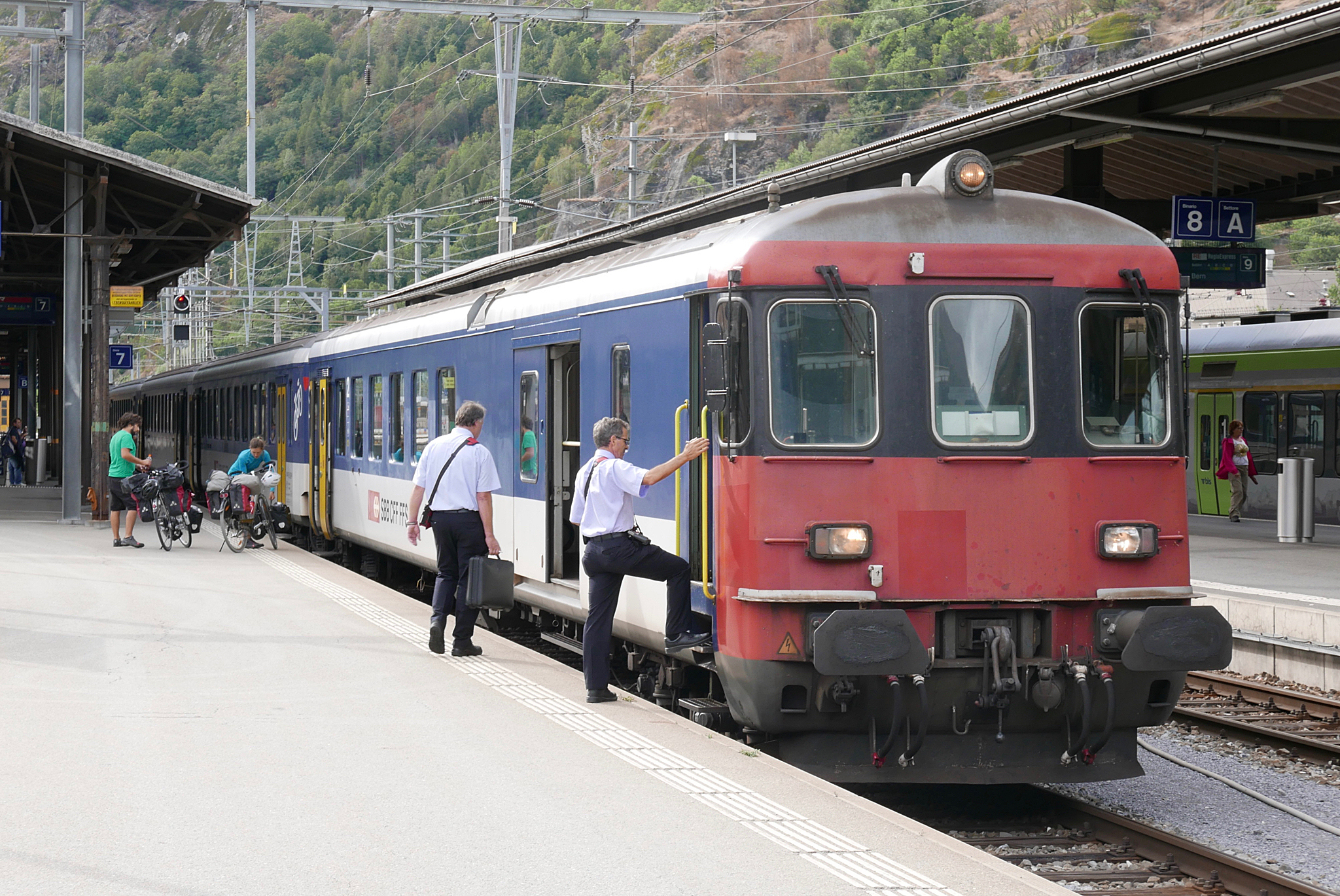 SBB CFF FFS BDt 50 85 82-33 928-1 at Brig train station ahead of InterRegio 3329 to Domodossola.